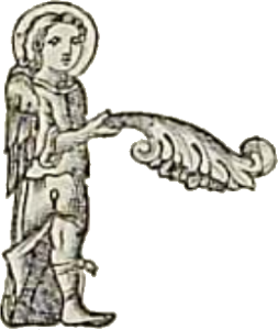 Armenian letter Ւ (Vyun, IPA: vjun) in Bargirq Haykazian Lezvi (Dictionary of the Armenian Language), Venice, 1749, p. 1181.